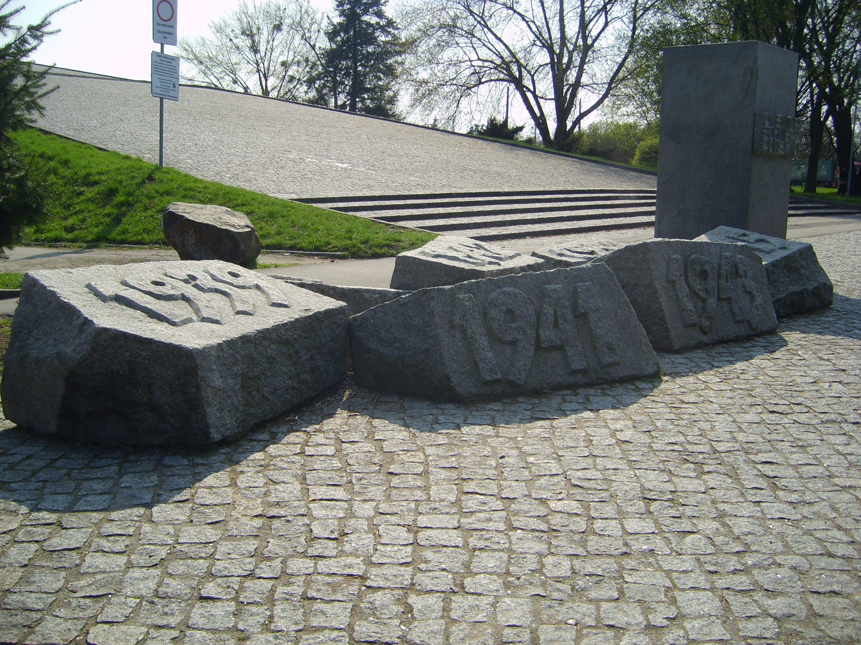 Cemetery of Polish Soldiers in Wrocław